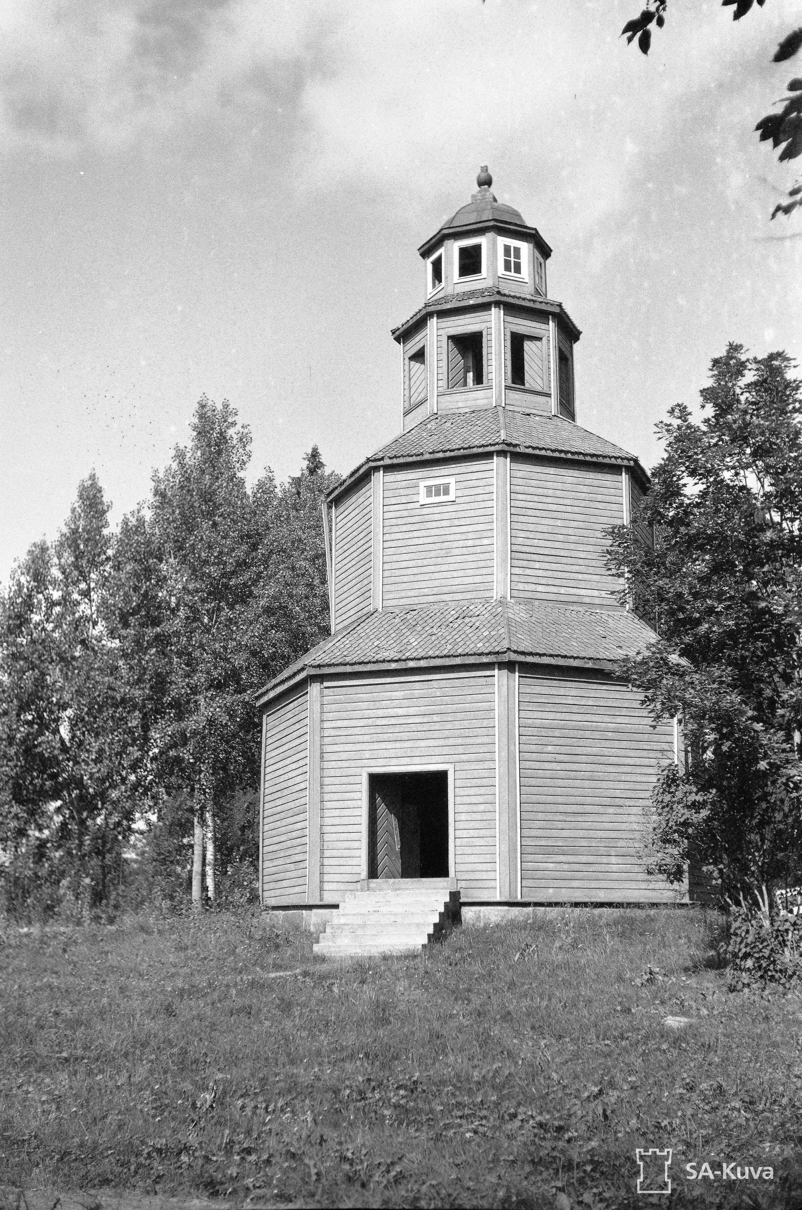 Hiitolan kirkosta ja kellotapulista olivat ryssät poistaneet ristin. Kumpikin oli vaurioitunut myös tykistötulesta. Kirkkoa oli käytetty teatterina. Näyttämö oli alttarilla.